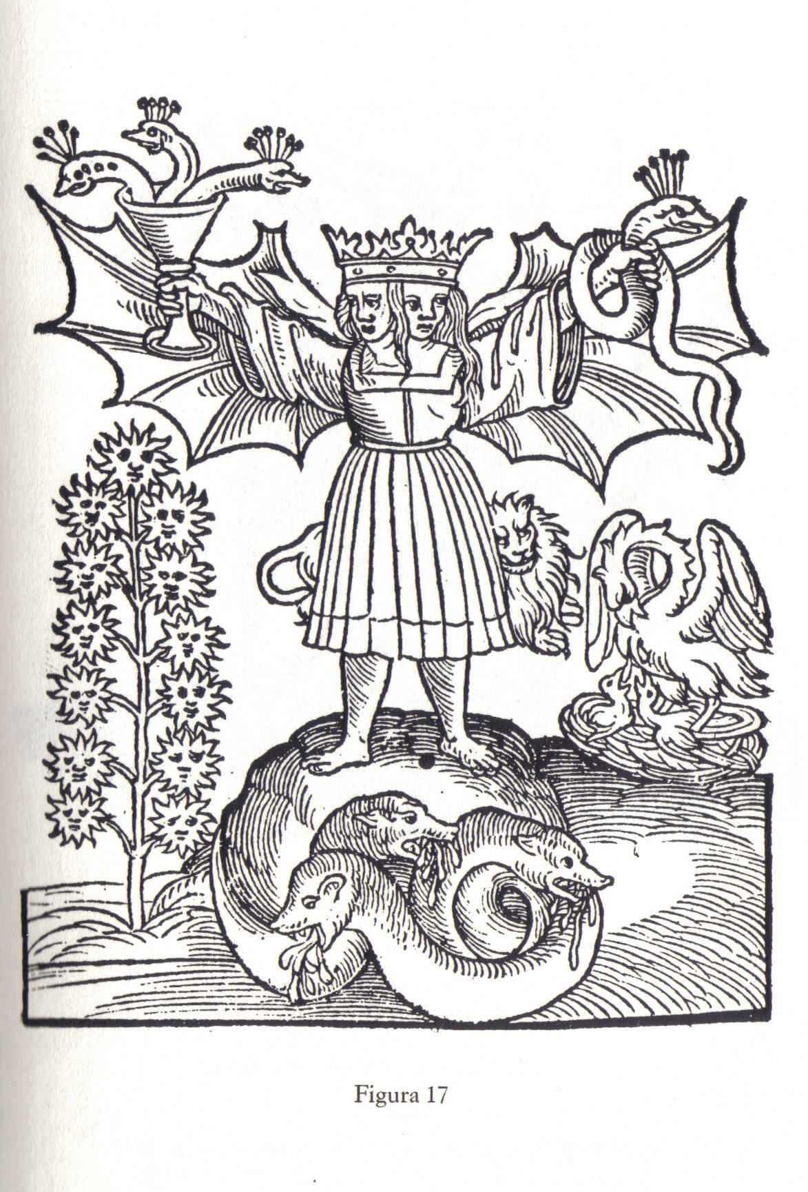 Il Rebis Androgino